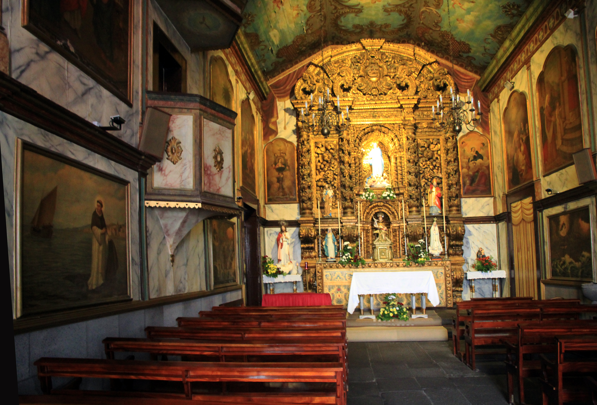 Interior of Fishermans chapel Capela de Nossa Senhora da Conceição (Câmara de Lobos) in smal town Câmara de Lobos on the south coast of Madeira island.